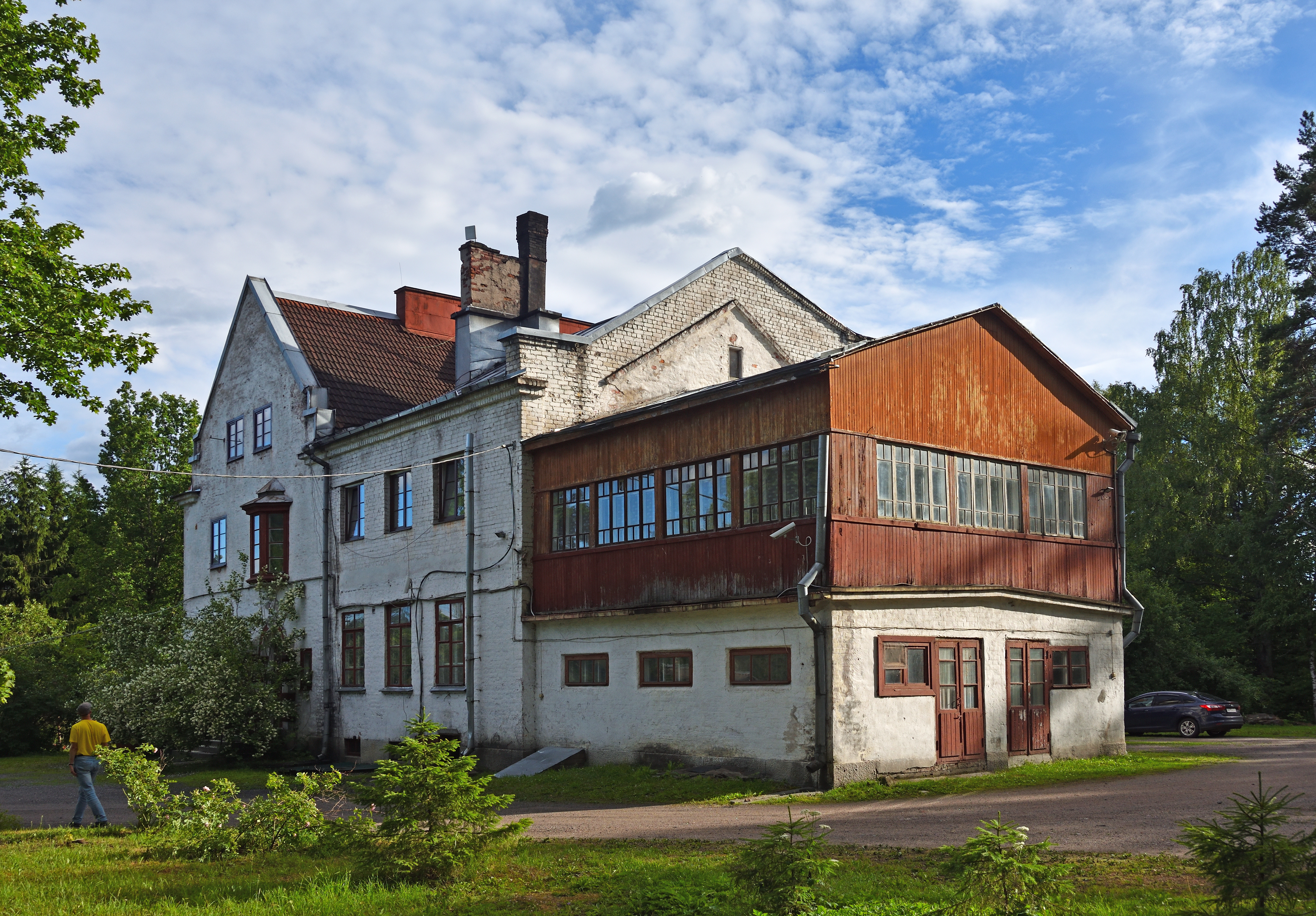 Villa of Wolf's Estate, Generatornaya street 1, Lesogorsky, Leningrad oblast, Russia